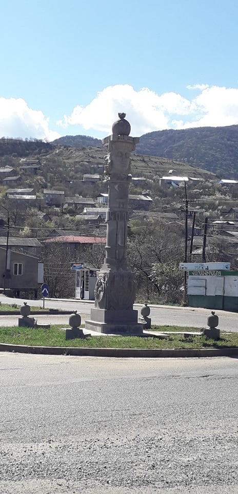 This is Sculpture of Koghb. Autor is Levon Abovian.